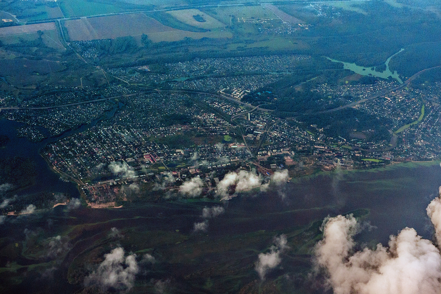 View on Vasilievo from an Airplane Kazan-Moscow